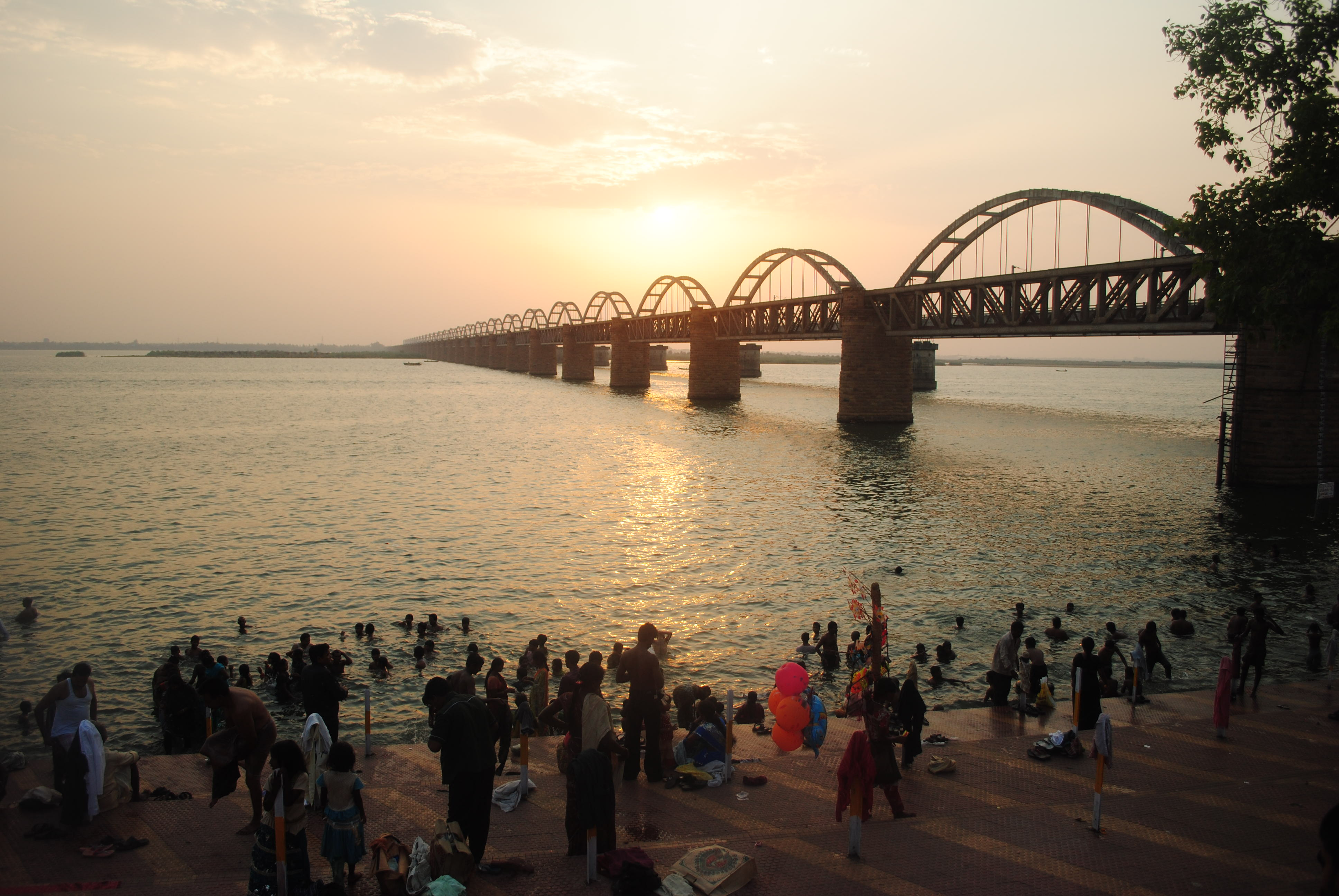 The sun sets over the Godavari river in Rajahmundry in India.